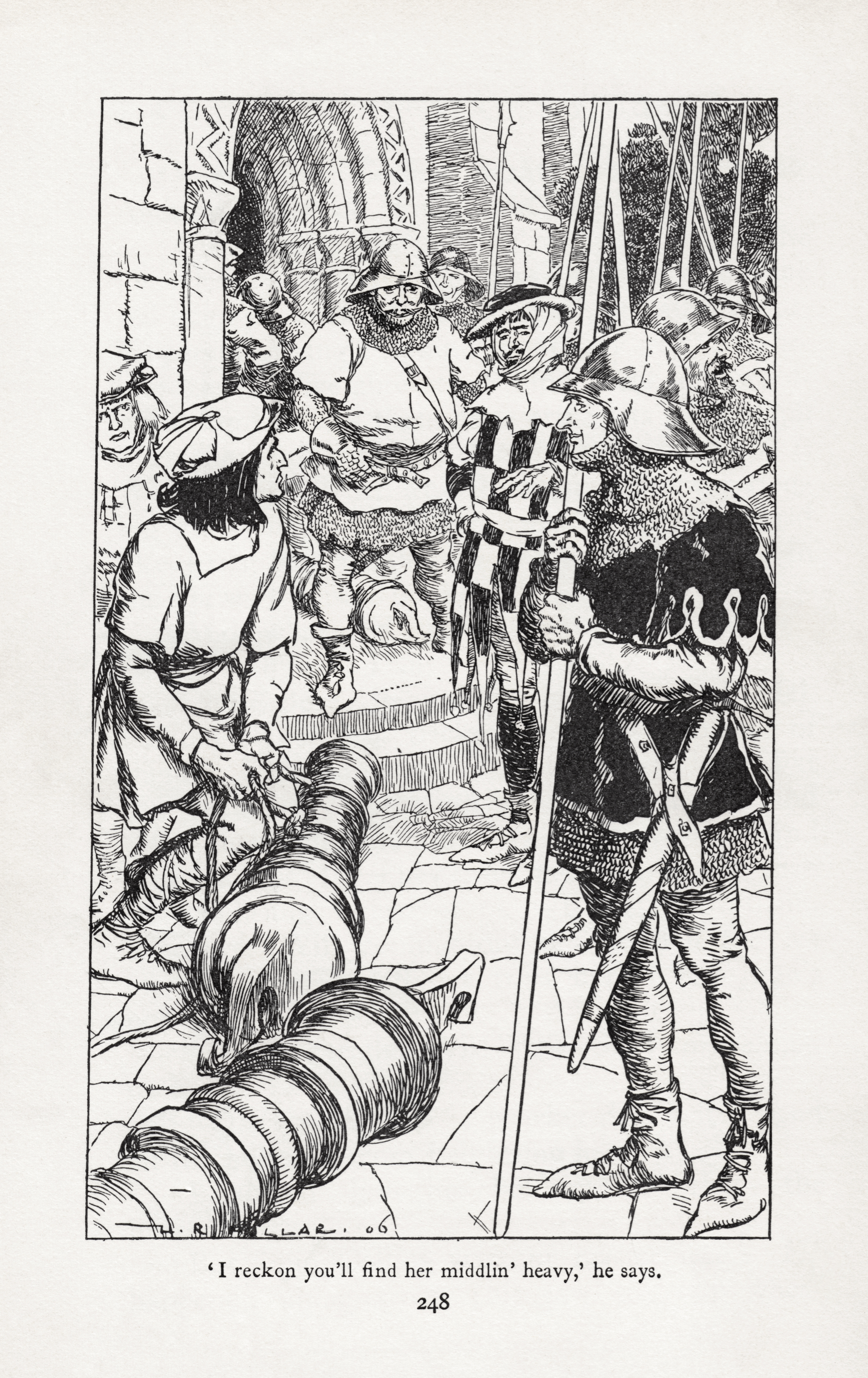 H. R. Millar's 17th illustration to the original edition of Rudyard Kipling's Puck of Pook's Hill, from the chapter "Hal o' the Draft": "'I reckon you'll find her middlin' heavy,' he says".